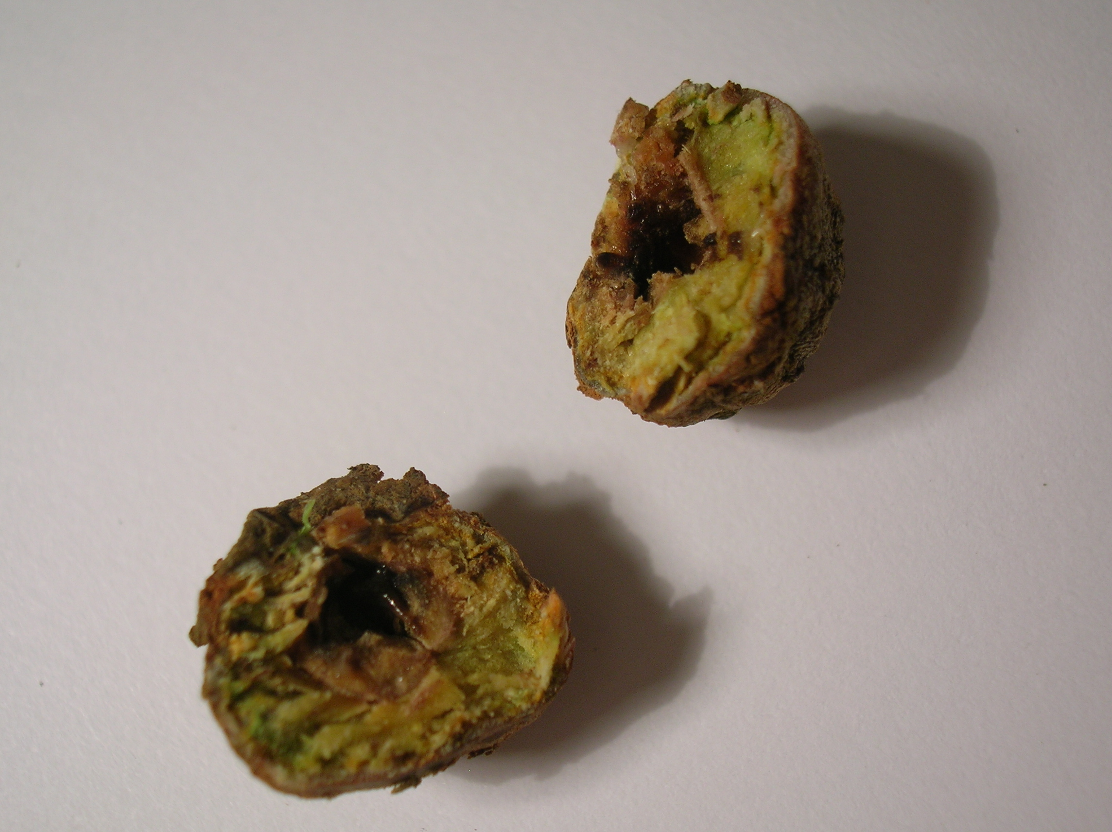 Cola-nut galls (Andricus lignicola) cut open to see the internal chamber.